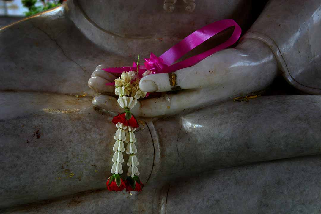 Offering to Buddha Offering to Buddha at Wat-Prathat-Doi-Suthep, a Buddhist temple near Chiang Mai - Thailand. Canon EOS Digital Rebel, 18-55mm Canon lens